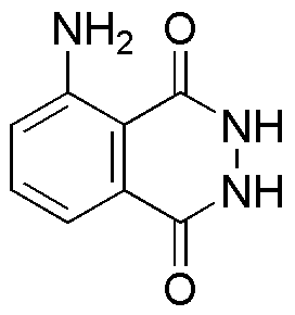 Chemical structure of luminol.